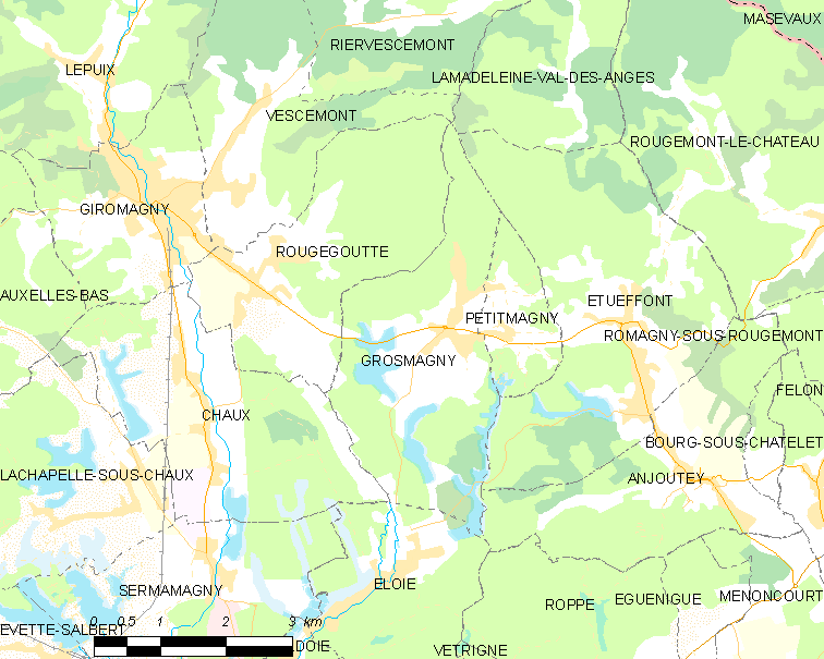 Map of French municipality Grosmagny